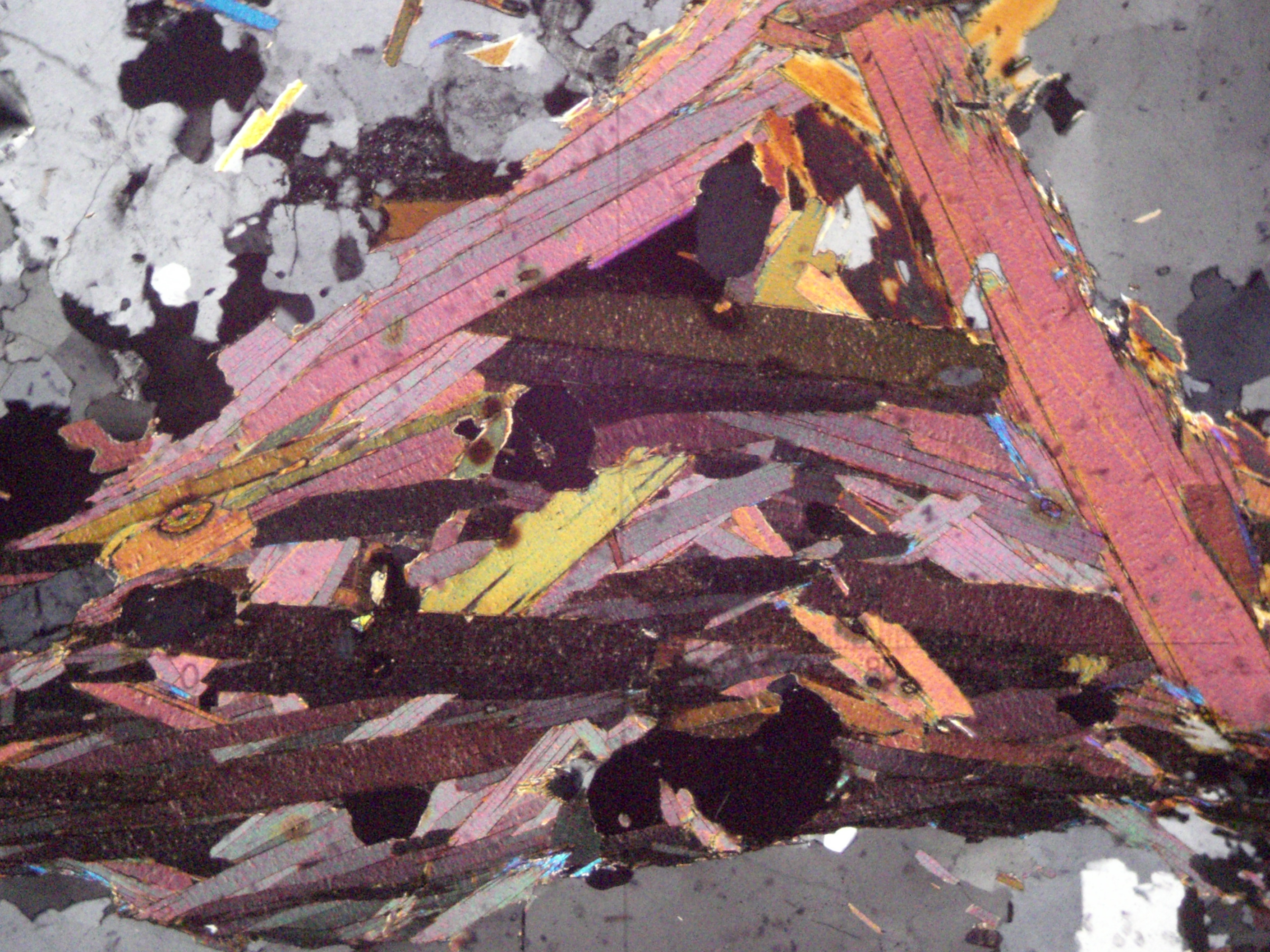 Metamorphism rock - Ortogneiss whit grains of biotite and muscovite. Zoom 40 times. With crossed polars.